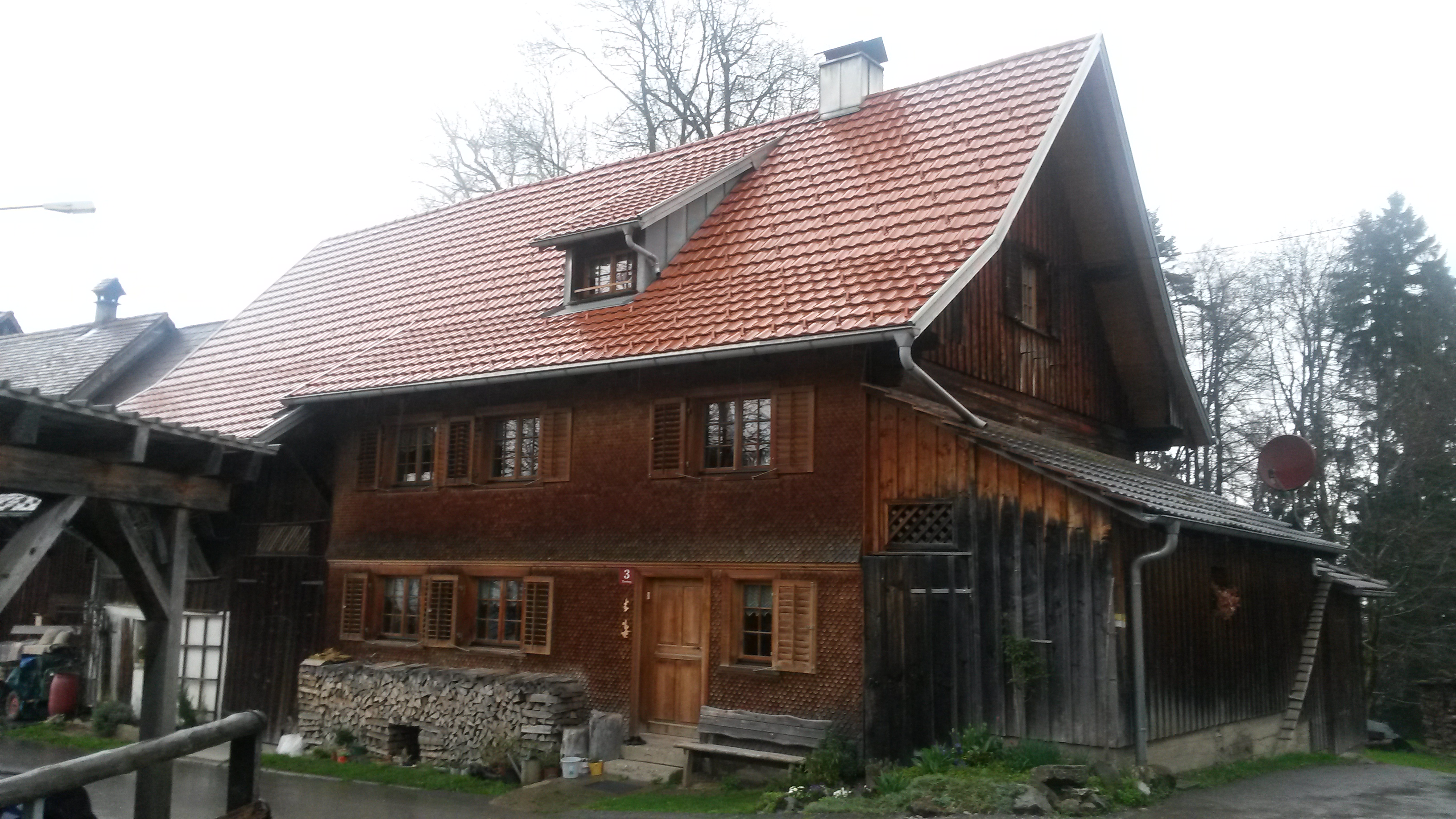 House Rhomberg no. 3 in the hamlet Rhomberg at Dornbirn in Vorarlberg, Austria.